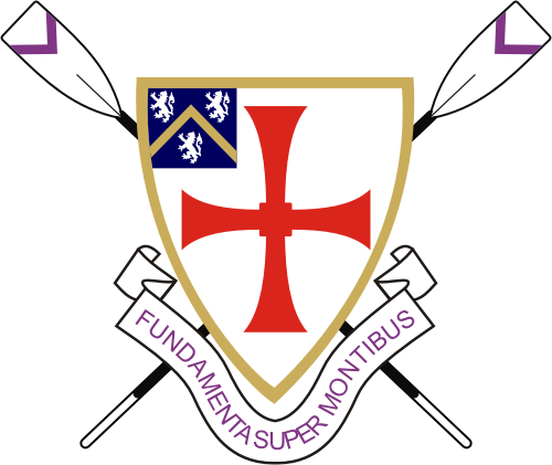 Durham College Rowing Crest